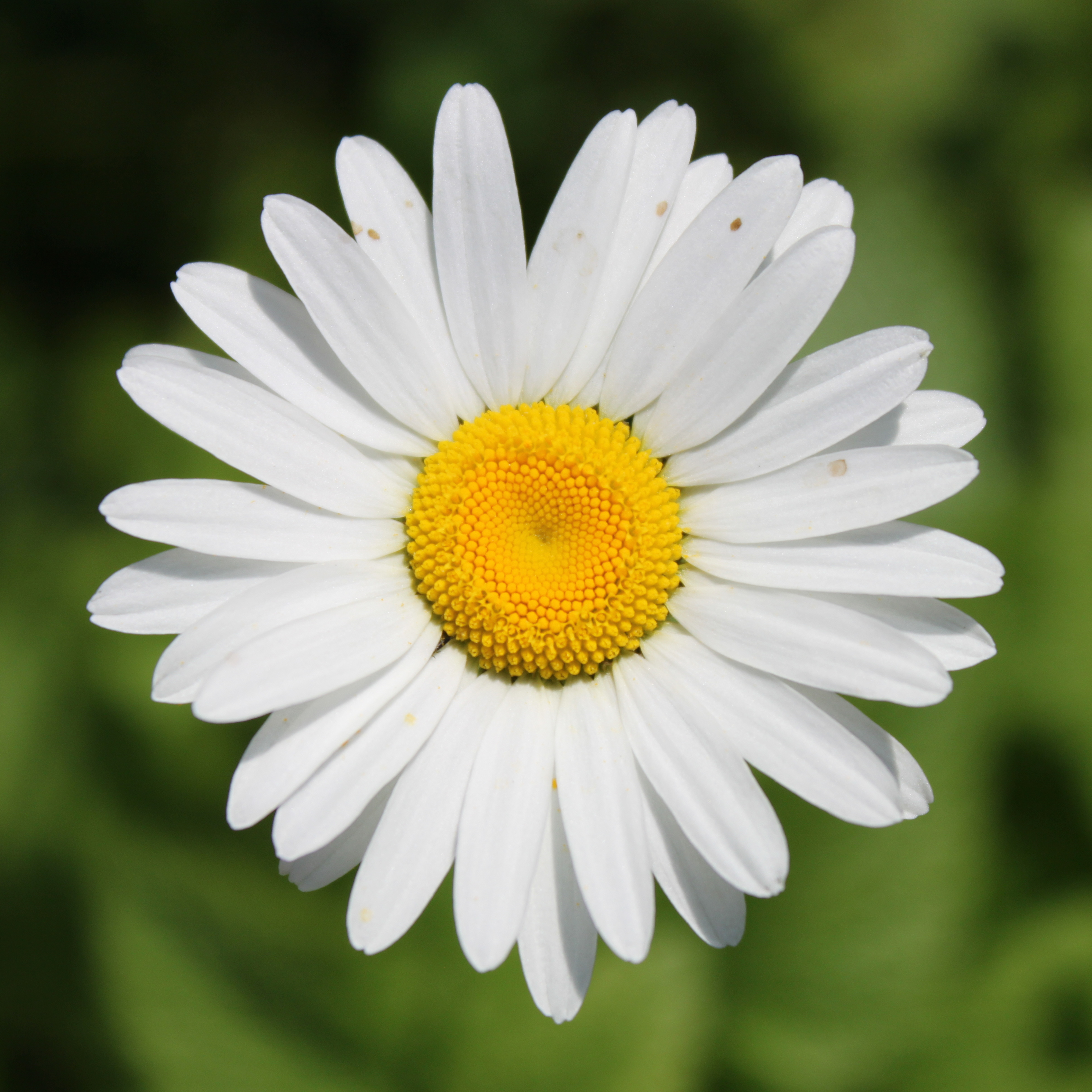 Flower of Leucanthemum vulgare